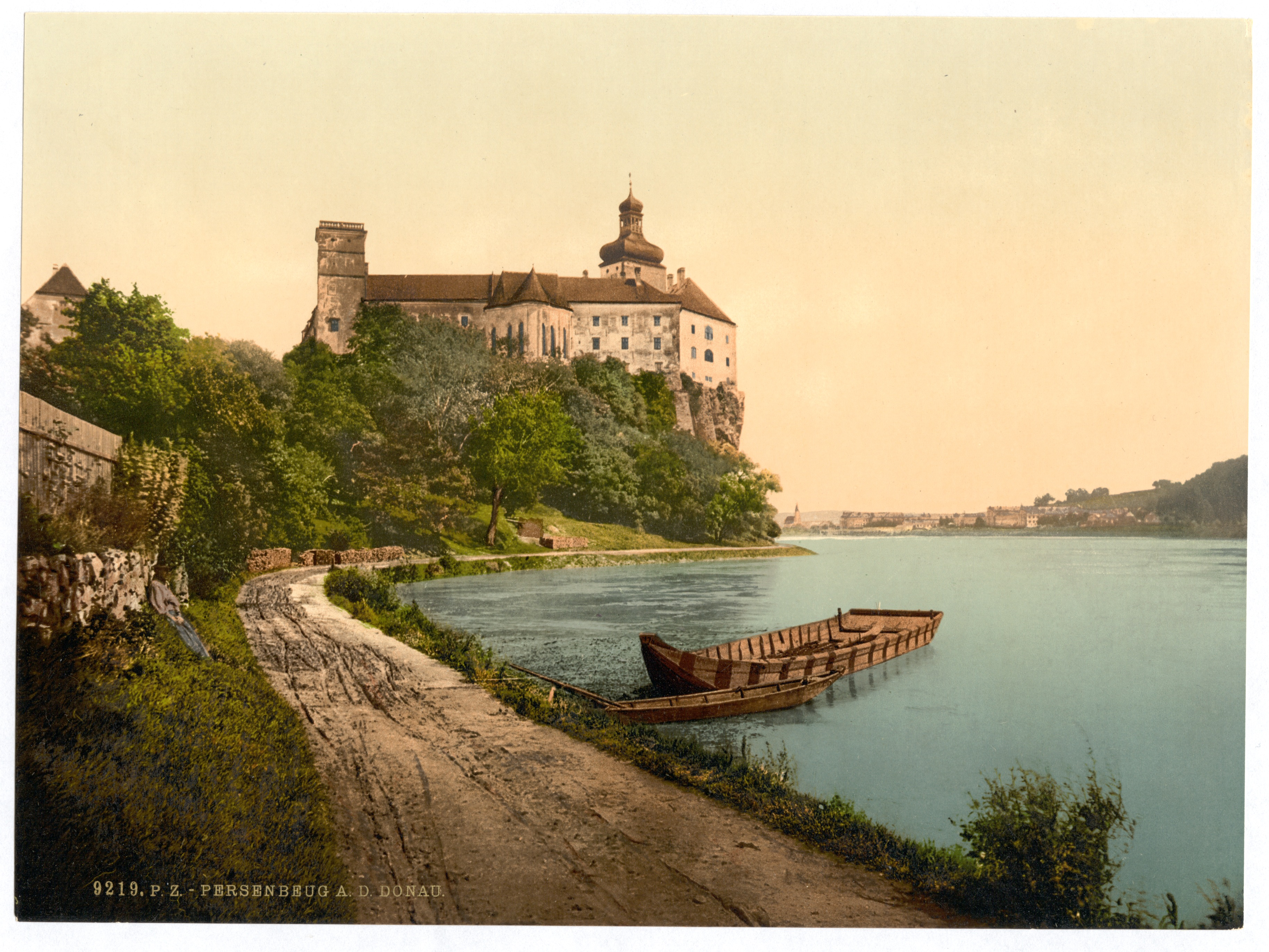 Print no. "9219".; Forms part of: Views of the Austro-Hungarian Empire in the Photochrom print collection.; Title from the Detroit Publishing Co., Catalogue J-foreign section, Detroit, Mich. : Detroit Publishing Company, 1905.